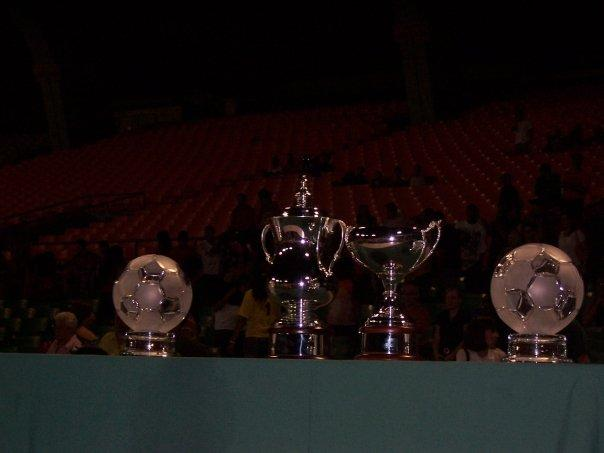 the prsl domestic cup